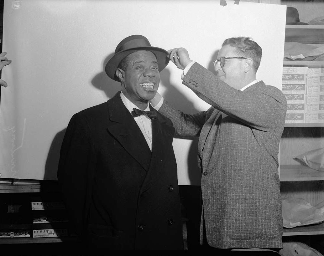 Hatter Sam Taft with Louis Armstrong, Toronto, Ontario, Canada